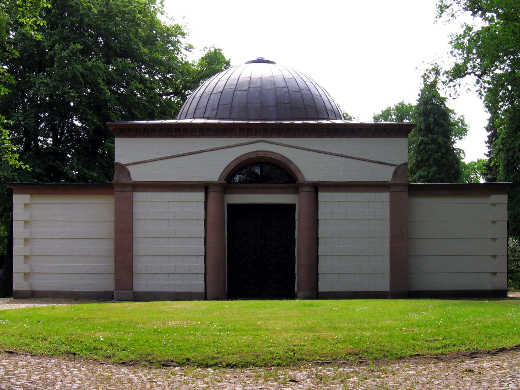 Capelle in old Church Yard in Flensburg in Germany